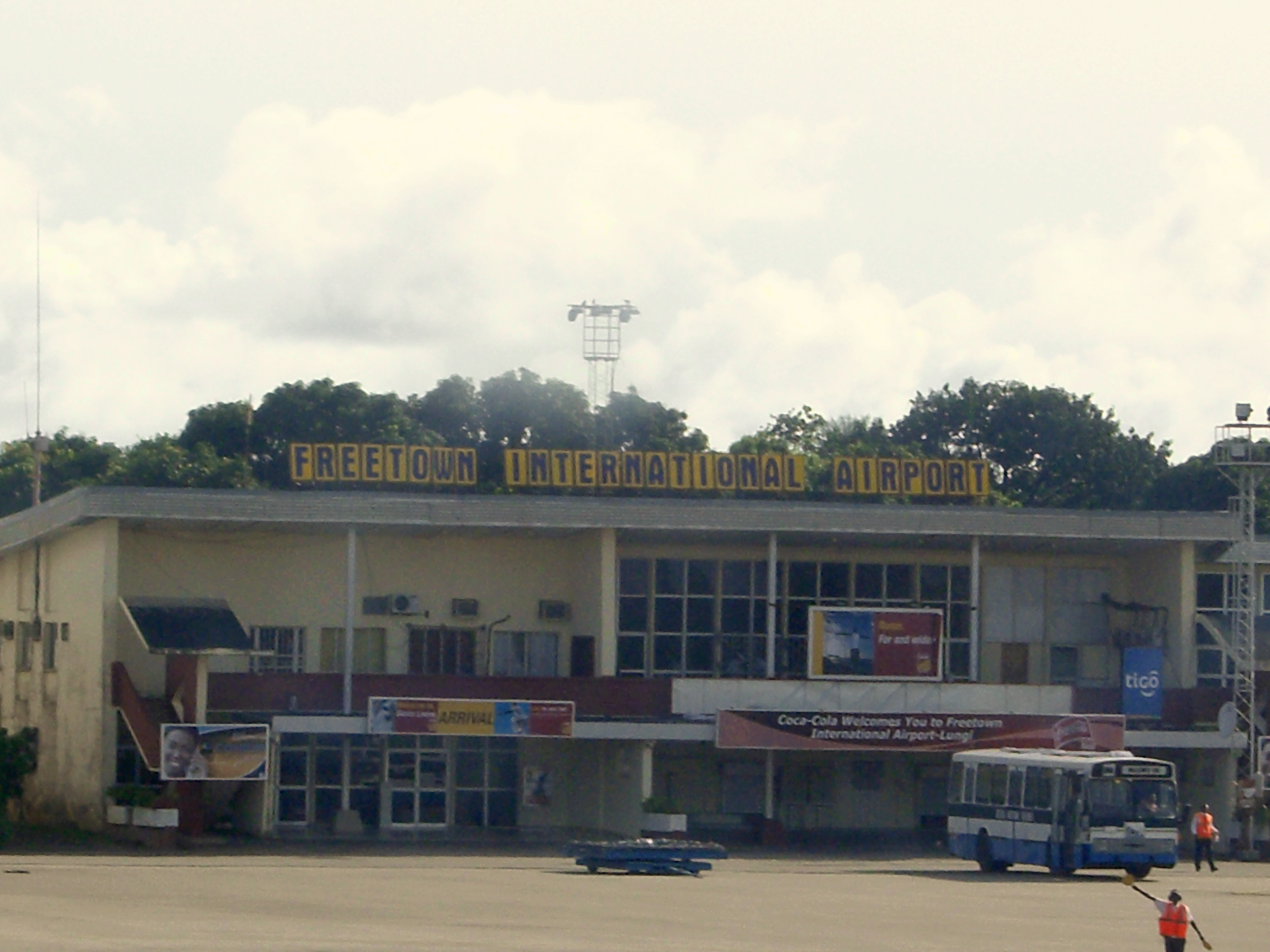 Freetown Lungi International Airport in 2006